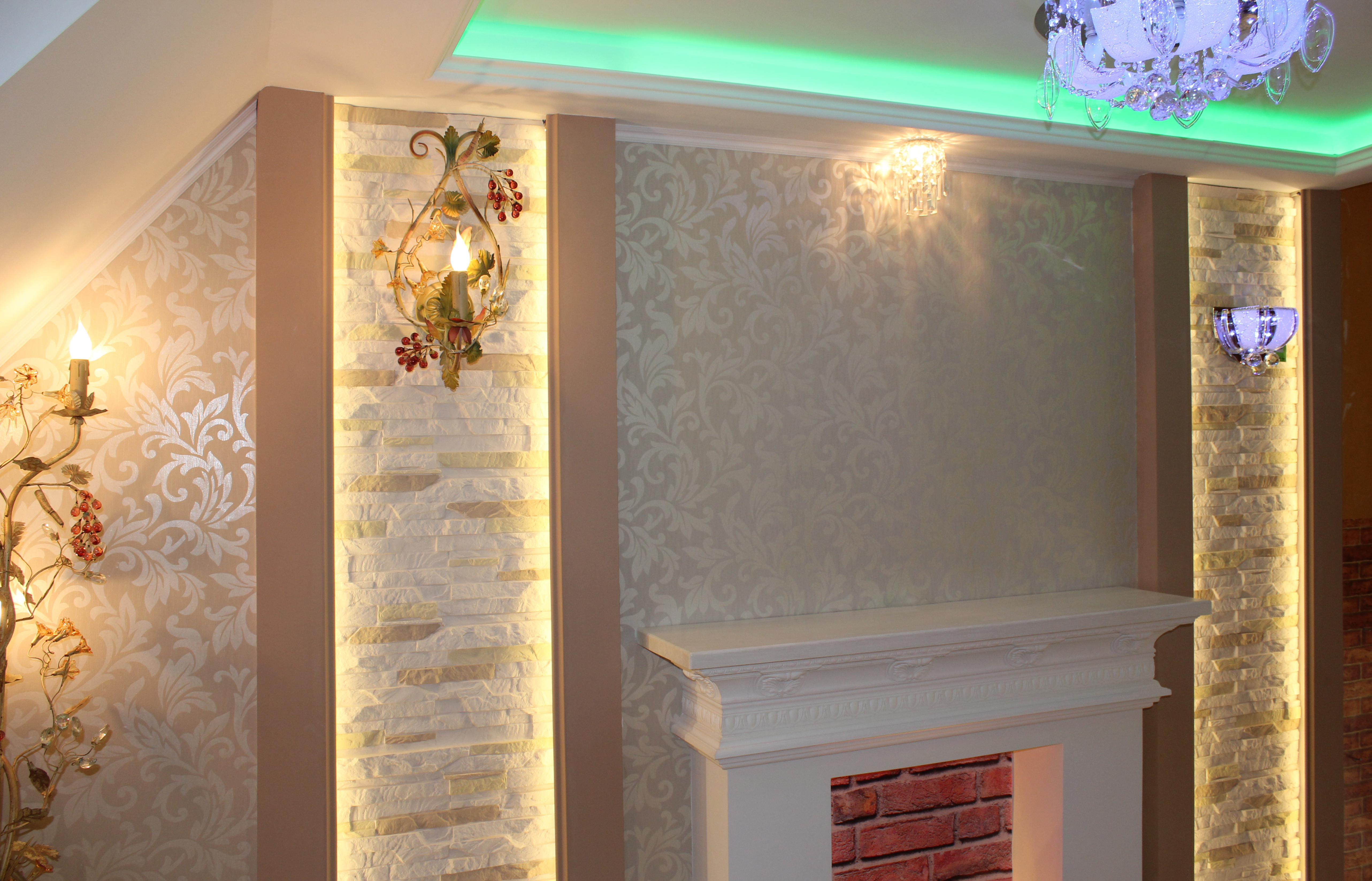 example of LED strip lighting room